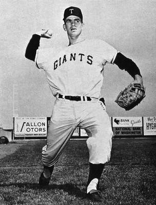 Professional baseball player Gaylord Perry